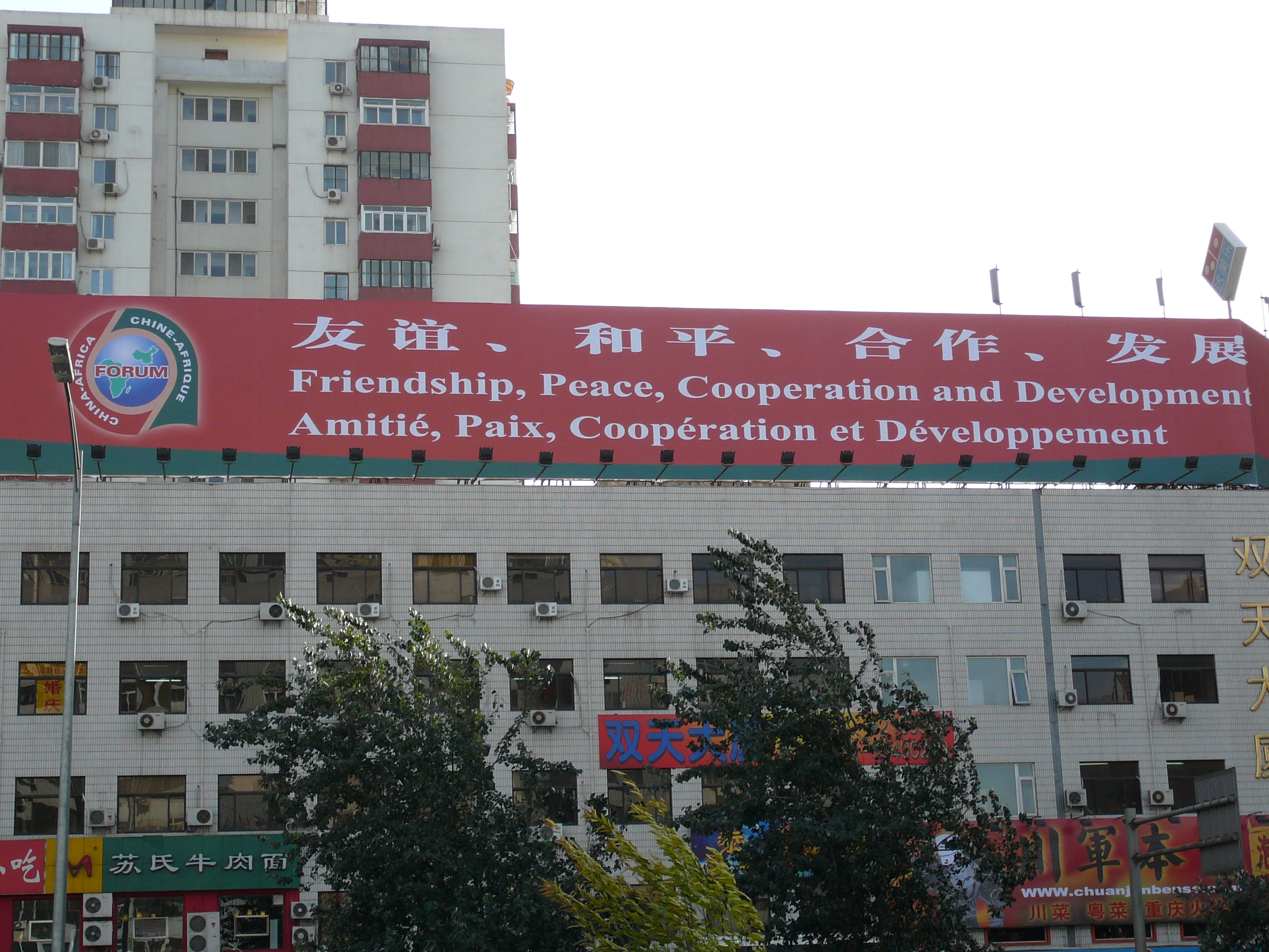 Banner in Beiing for the November 1996 Forum on China-Africa Cooperation.